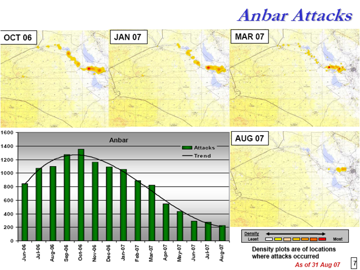 Anbar Attacks as of 31 Aug 07 Charts to accompany the testimony of GEN David H. Petraeus 10-11 September 2007